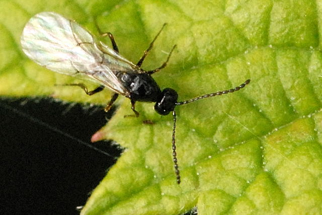 Praon abjectum from Commanster, Belgian High Ardennes .